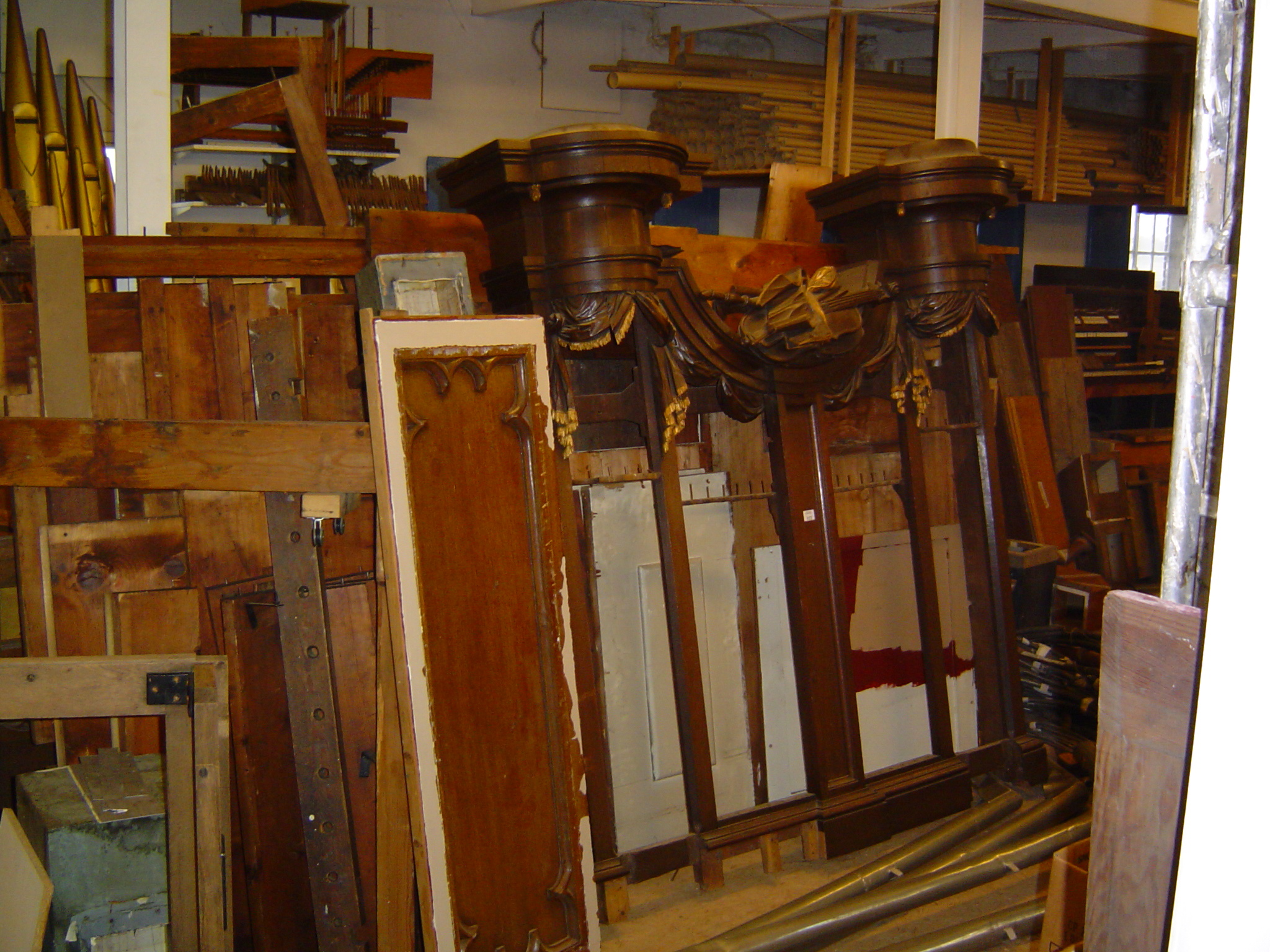 Adema orgelbouw, Hillegom - The Netherlands